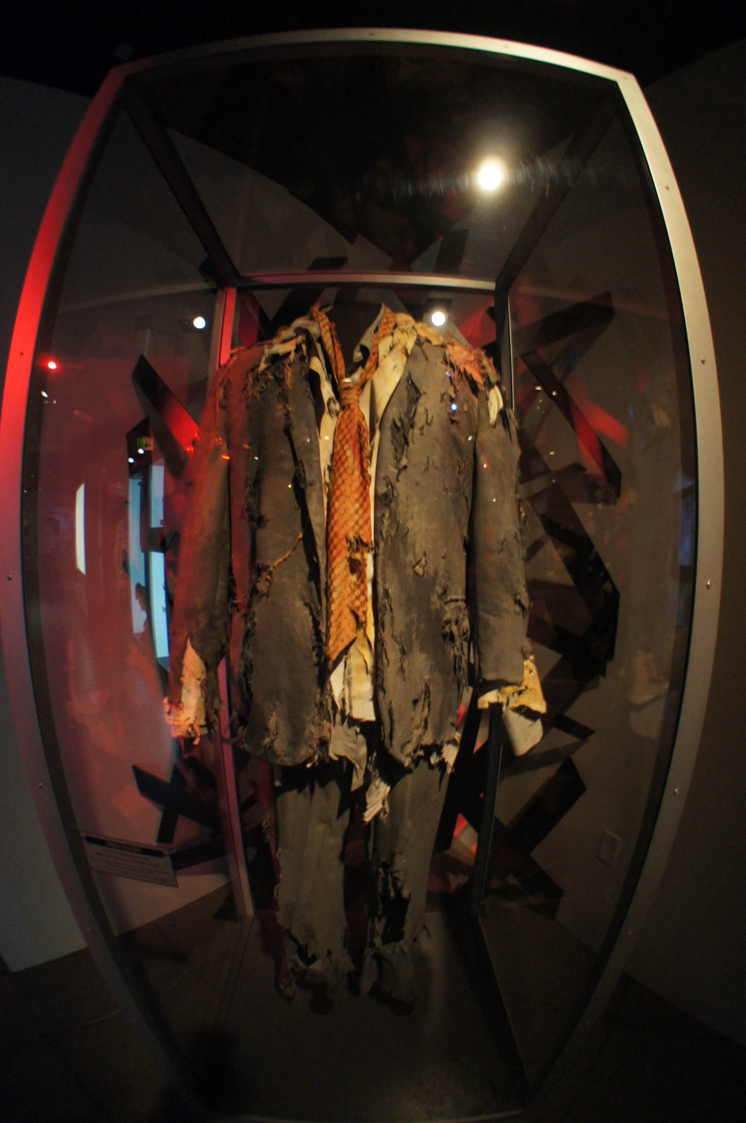 A Zombie outfit from Michael Jackson's Thriller video, Experience Music Project/Science Fiction Hall of Fame, Seattle.